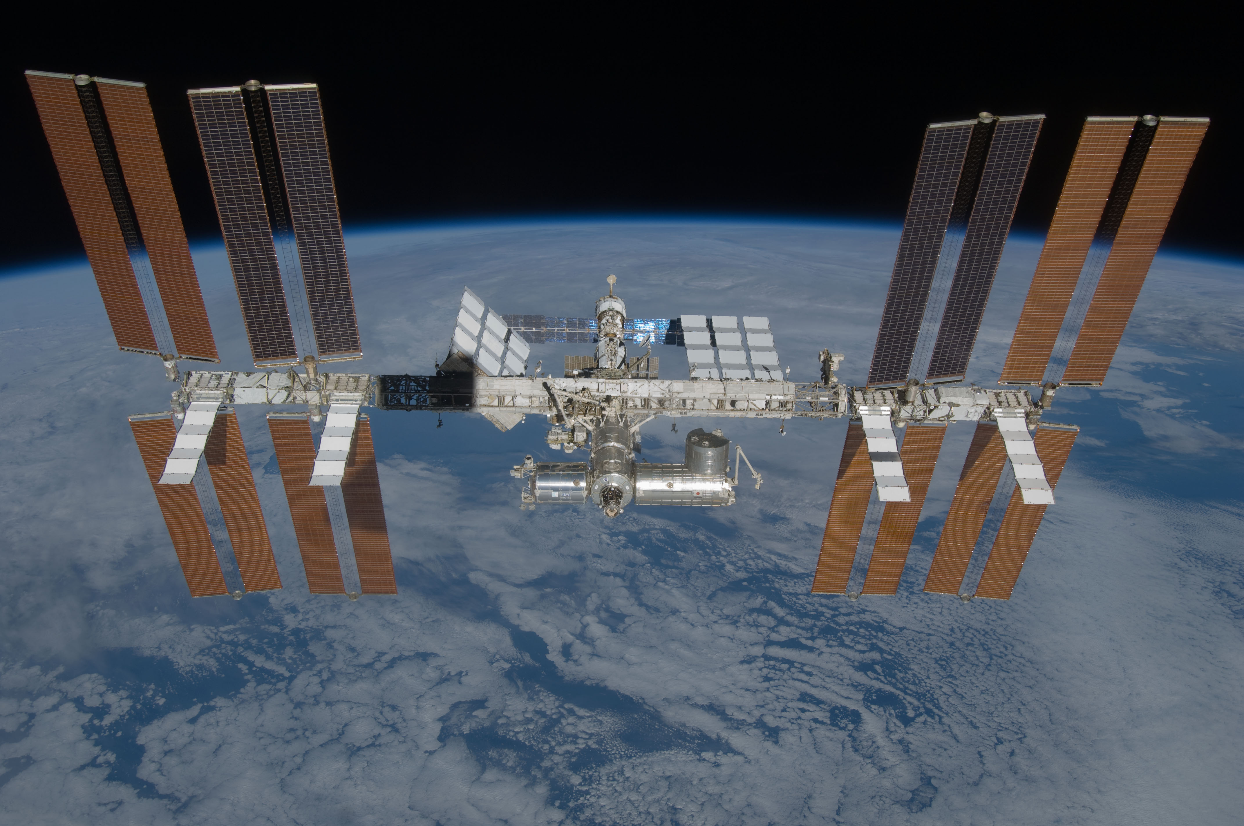 Backdropped by the blackness of space and Earth's horizon, the International Space Station is seen from Space Shuttle Discovery as the two spacecraft begin their relative separation. Earlier the STS-119 and Expedition 18 crews concluded 9 days, 20 hours and 10 minutes of cooperative work onboard the shuttle and station. Undocking of the two spacecraft occurred at 2:53 p.m. (CDT)